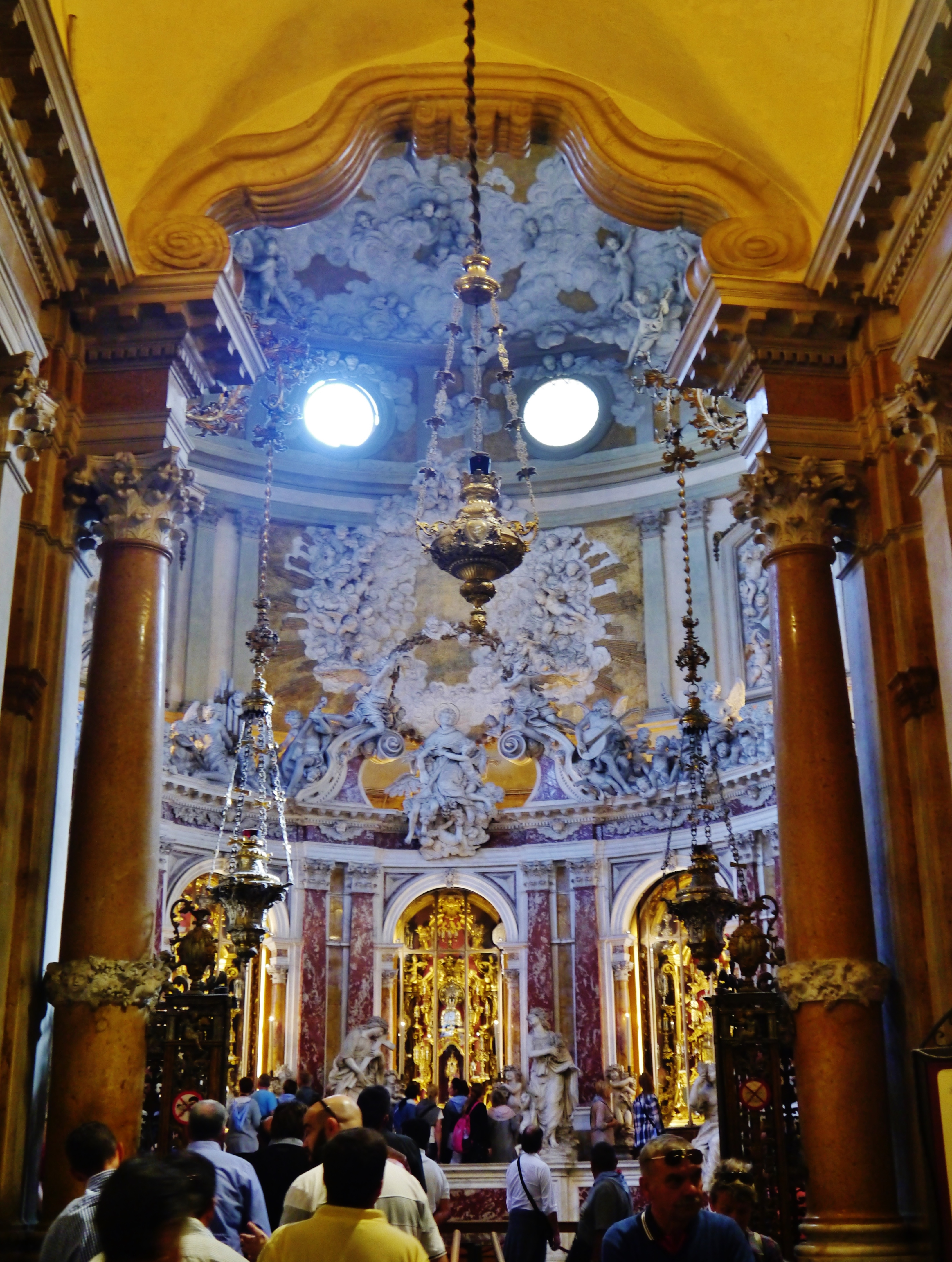 Chapel of the Relics of the Basilica of St. Anthony, Padua, Province of Padua, Region of Veneto, Italy